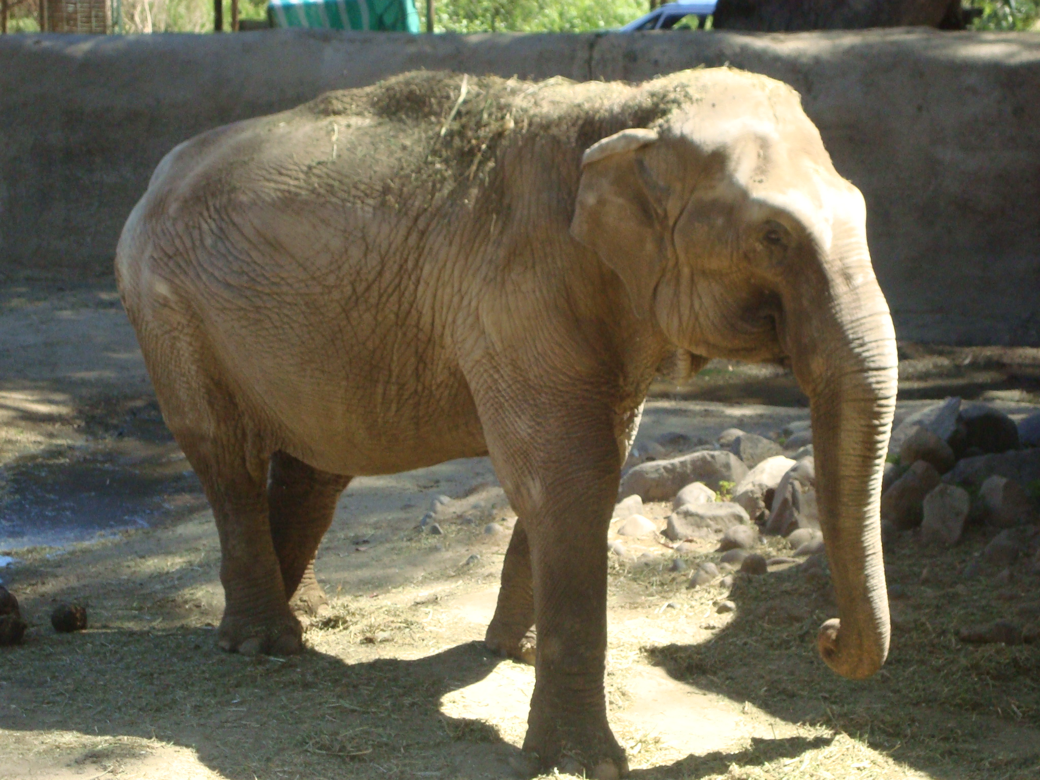 This is the Asian elephant Frida (I'm sure that's her name) Quilpué Zoo, Valparaíso, Chile.